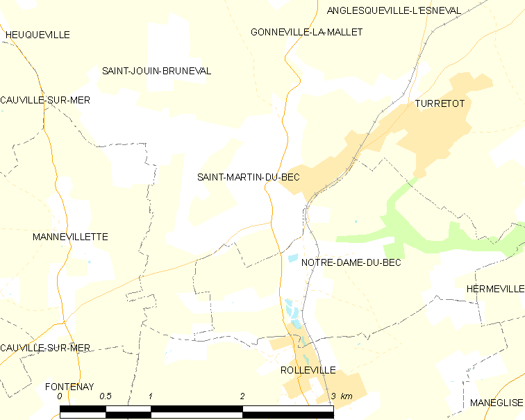 Map of French municipality Saint-Martin-du-Bec